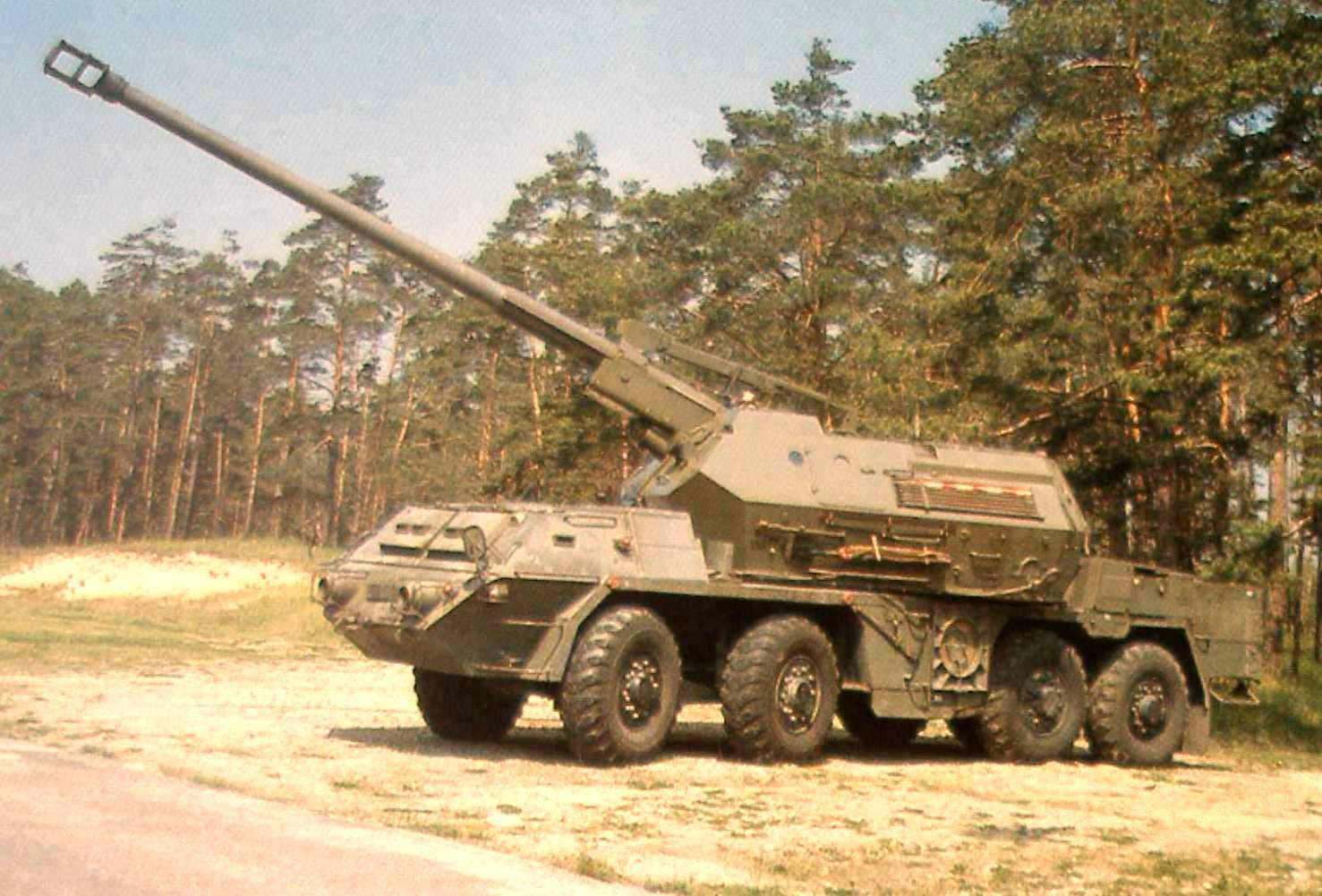 Self-propelled gun howitzer 152 mm ShKH Ondava of the Slovak Army